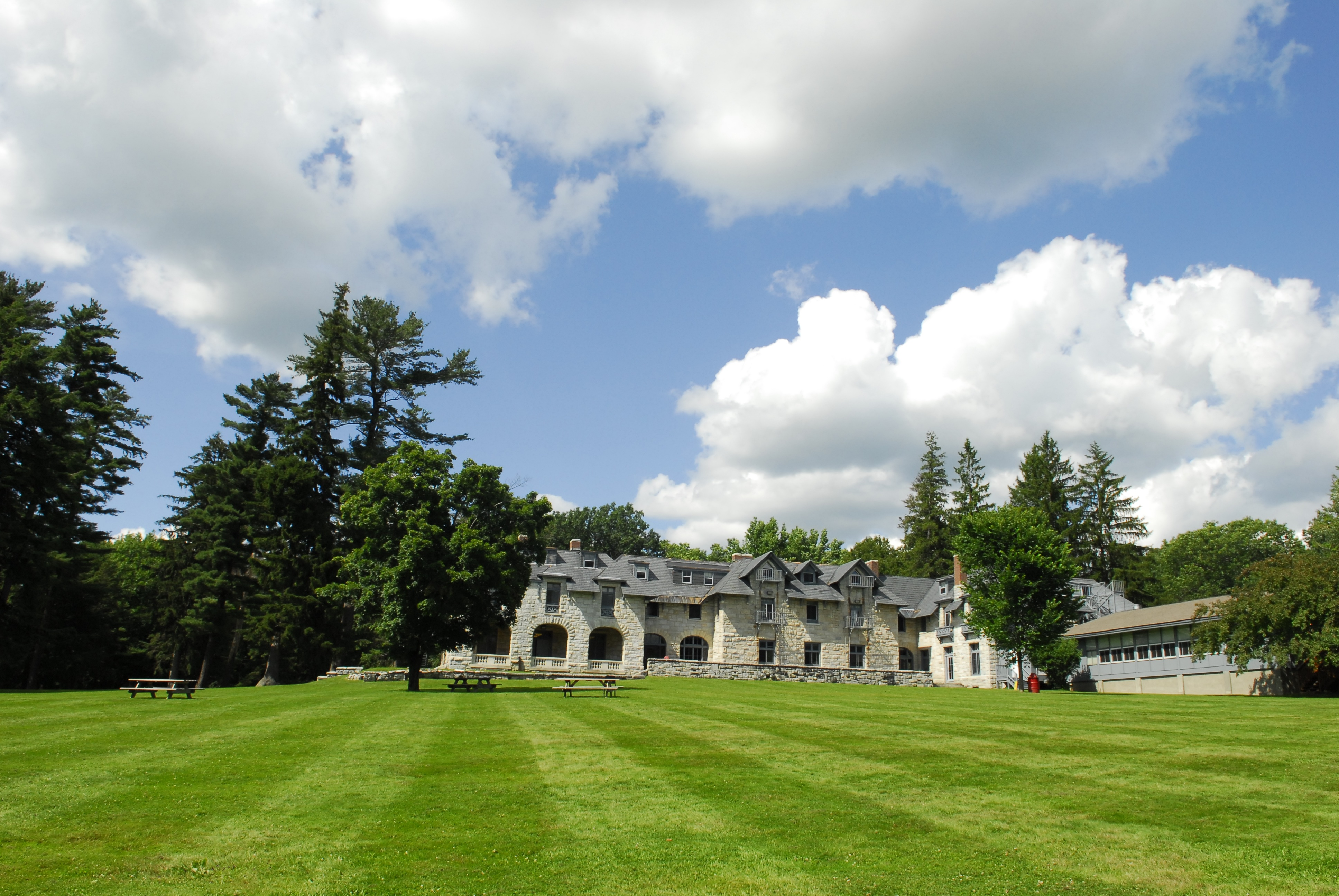 The Boston University Tanglewood Institute main grounds in Lenox, MA